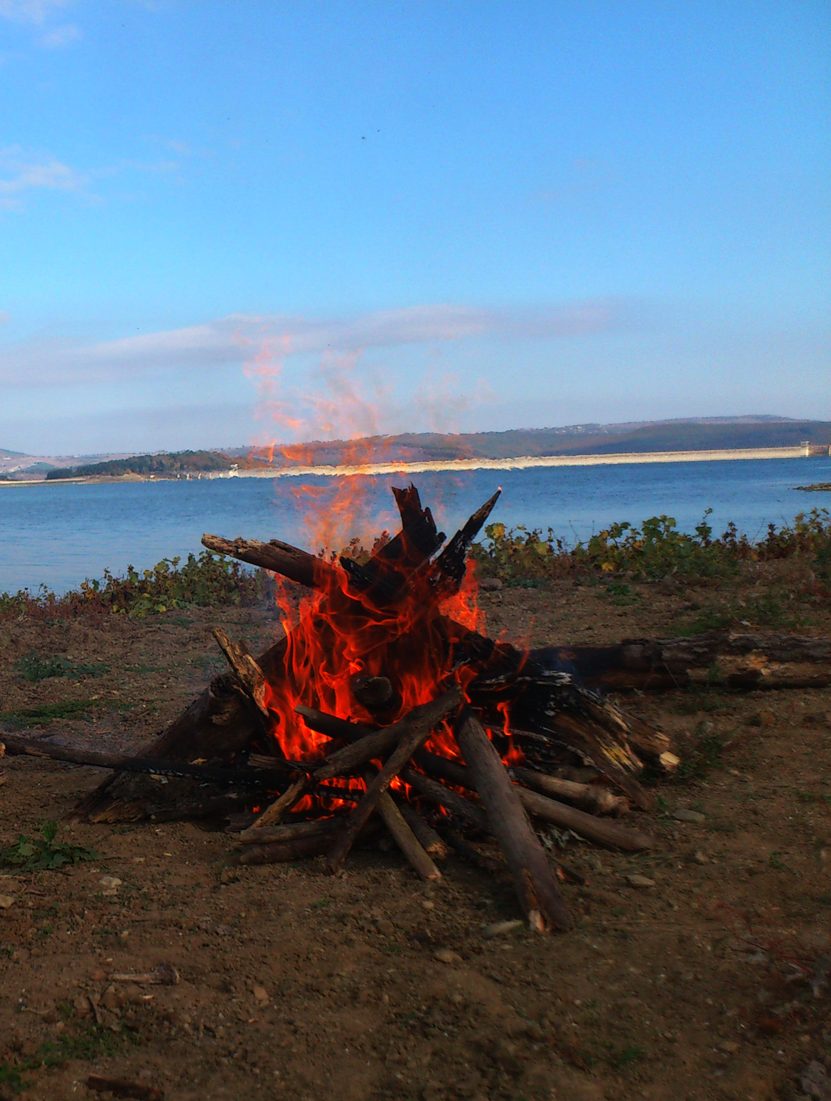 Campfire on the foreshore of Tsonevo dam 2012